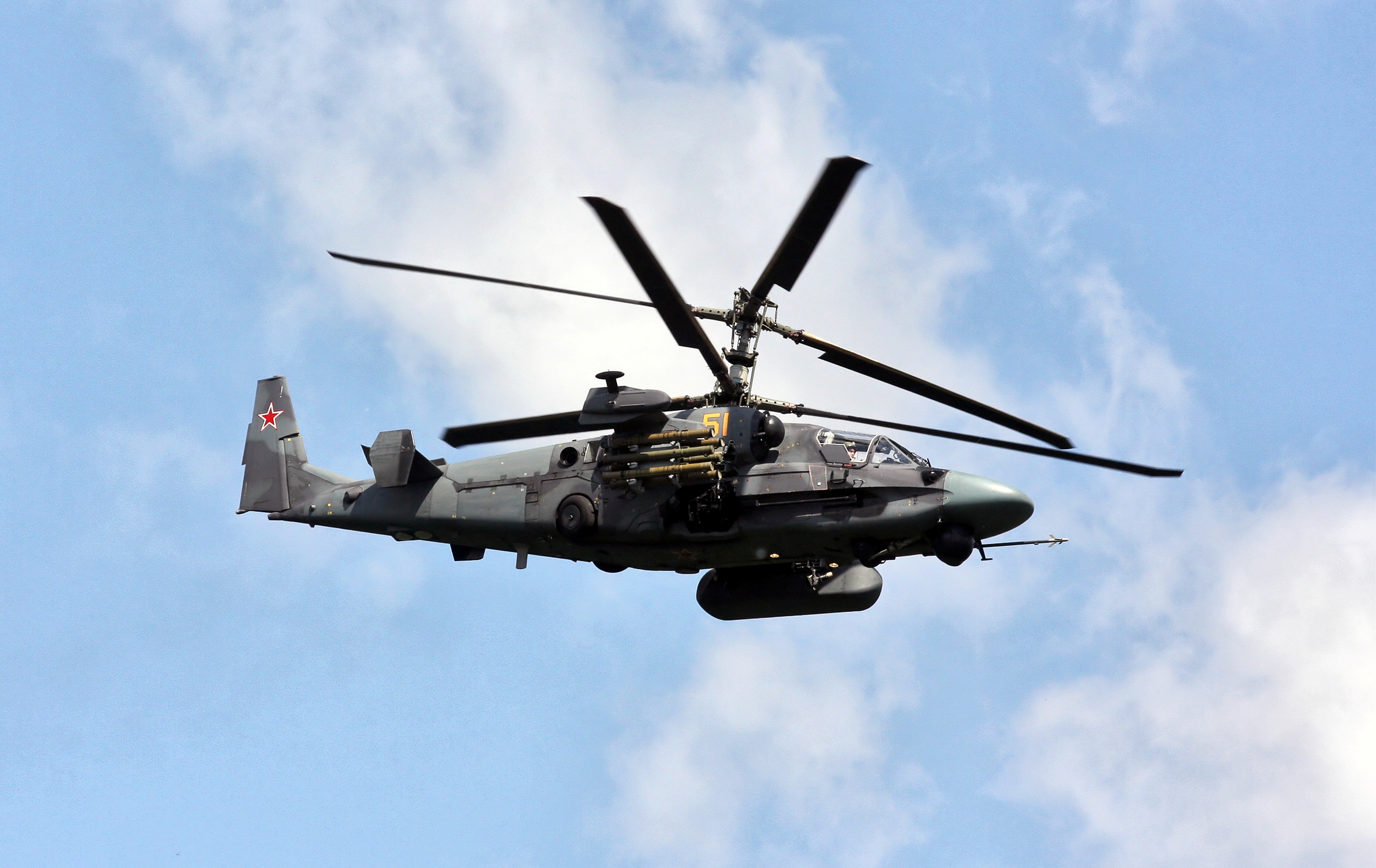 A Russian Kamov Ka-52 helicopter.